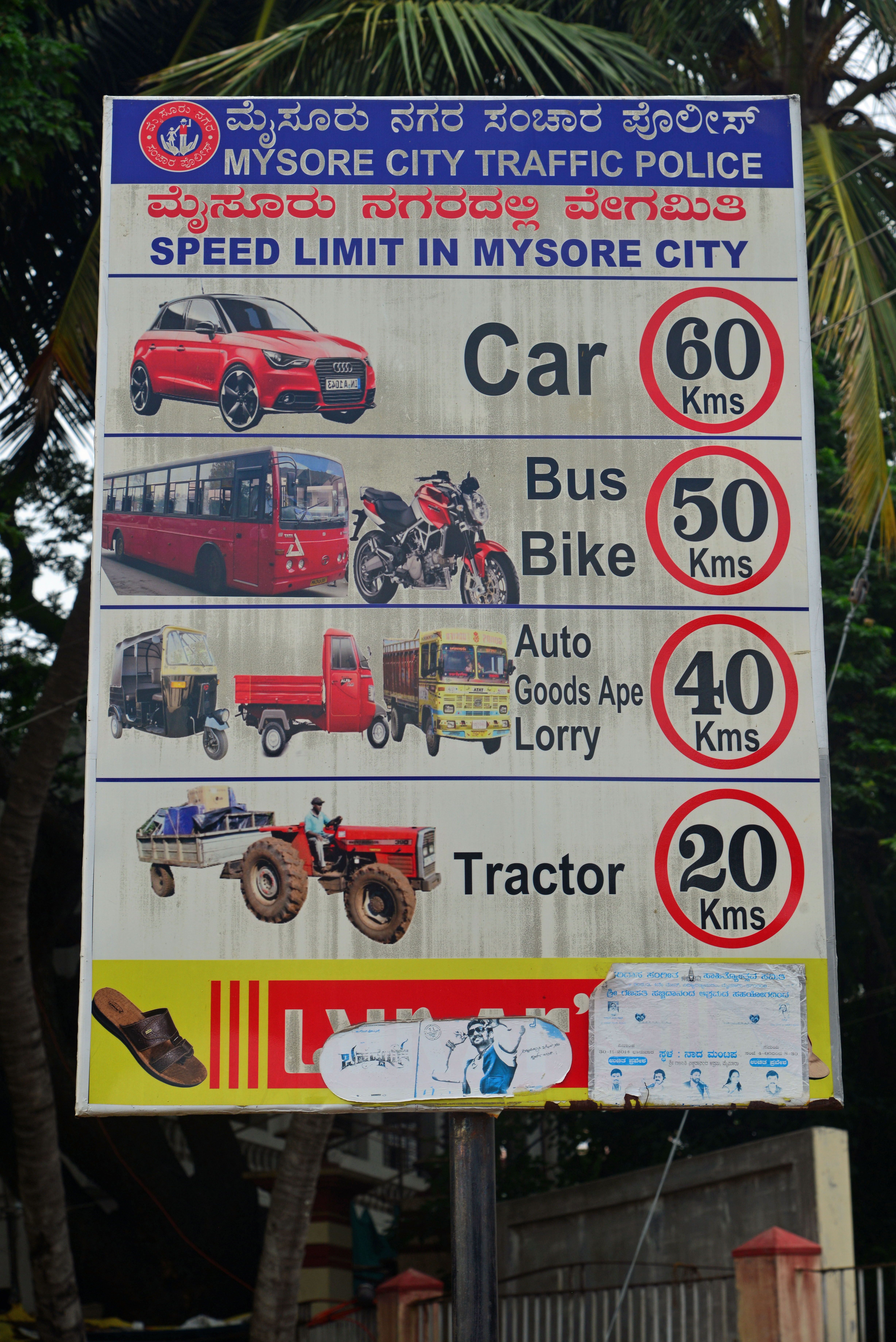 Speed limits notice, Mysore